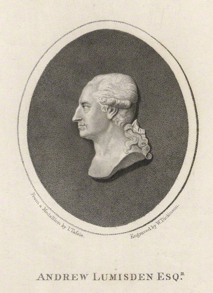 Portrait of Andrew Lumisden (1720–1801), Scottish Jacobite.